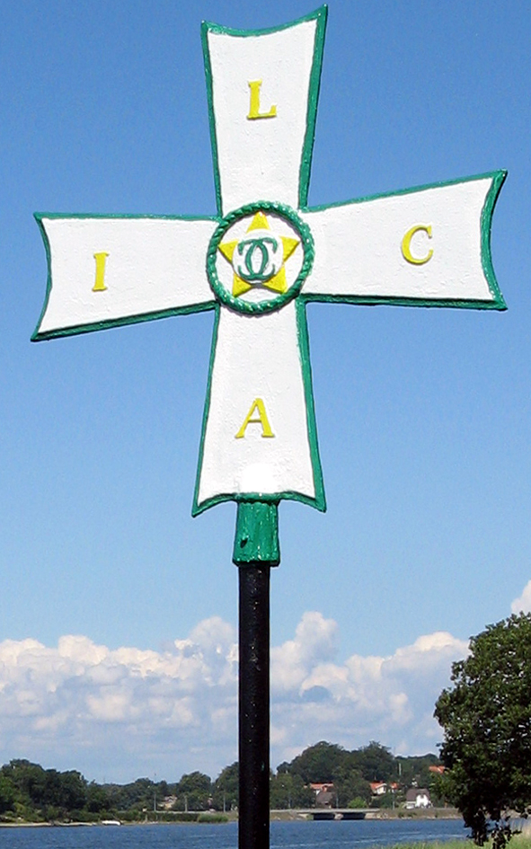 Cross set up by the order society Kronans Coldin in 1919